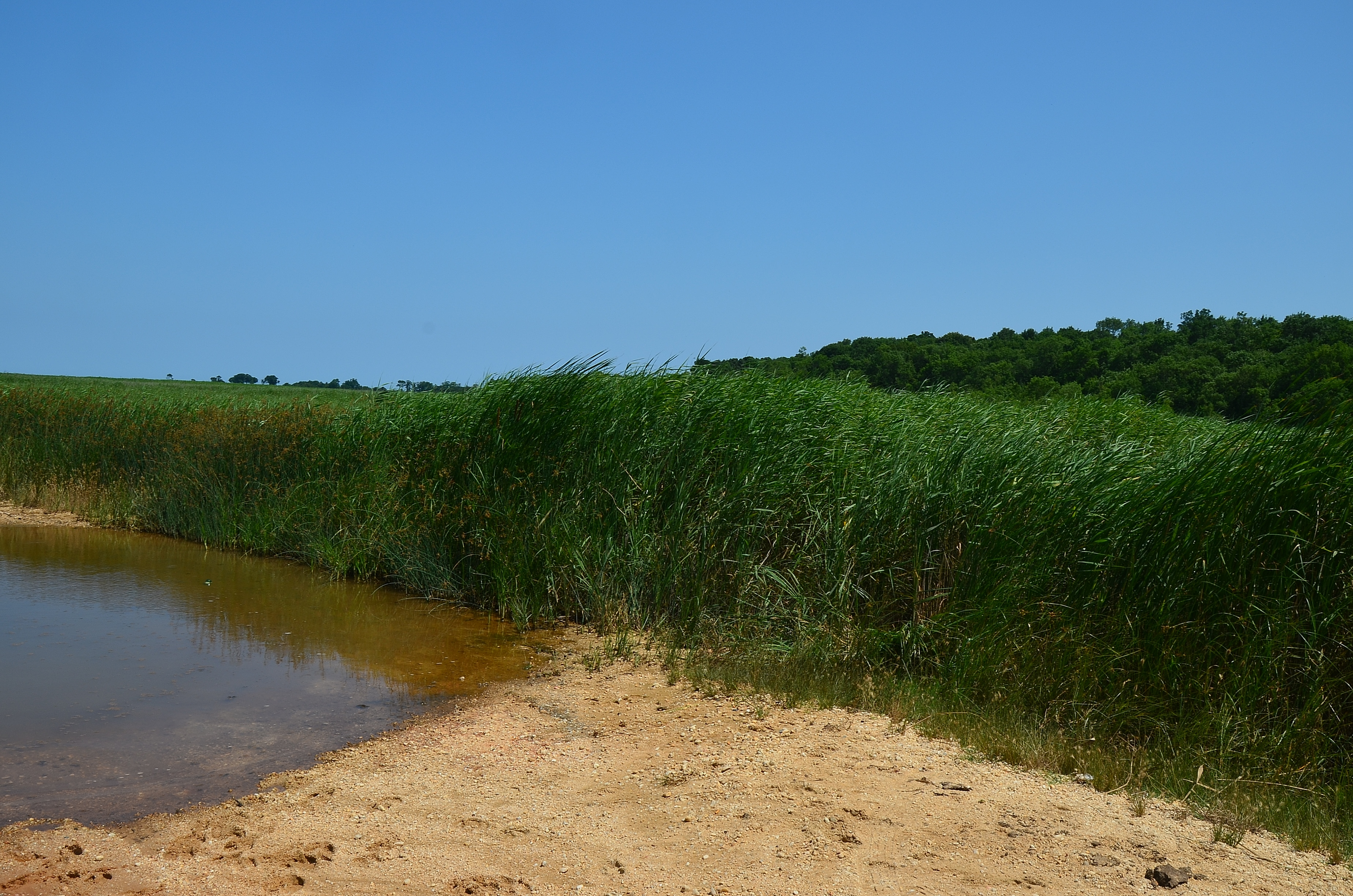 A view in the İğneada Floodplain Forests National Park in İğneada, Kırklareli Province, Turkey